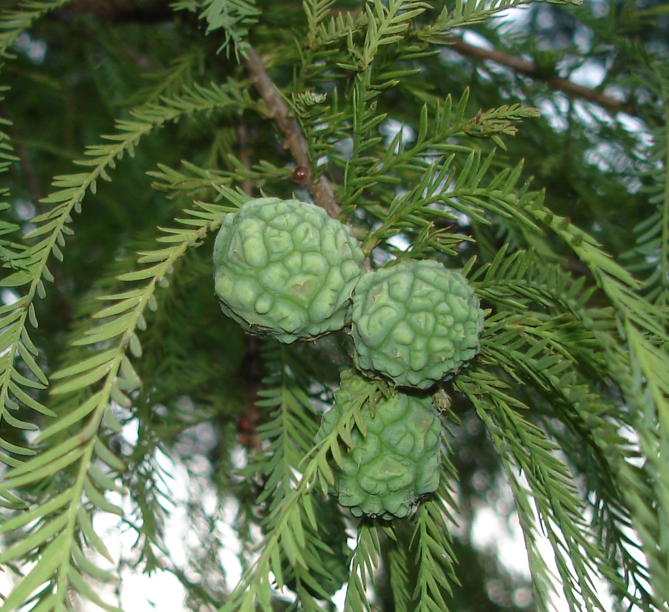 Cones of Baldcypress tree (Taxodium distichum)